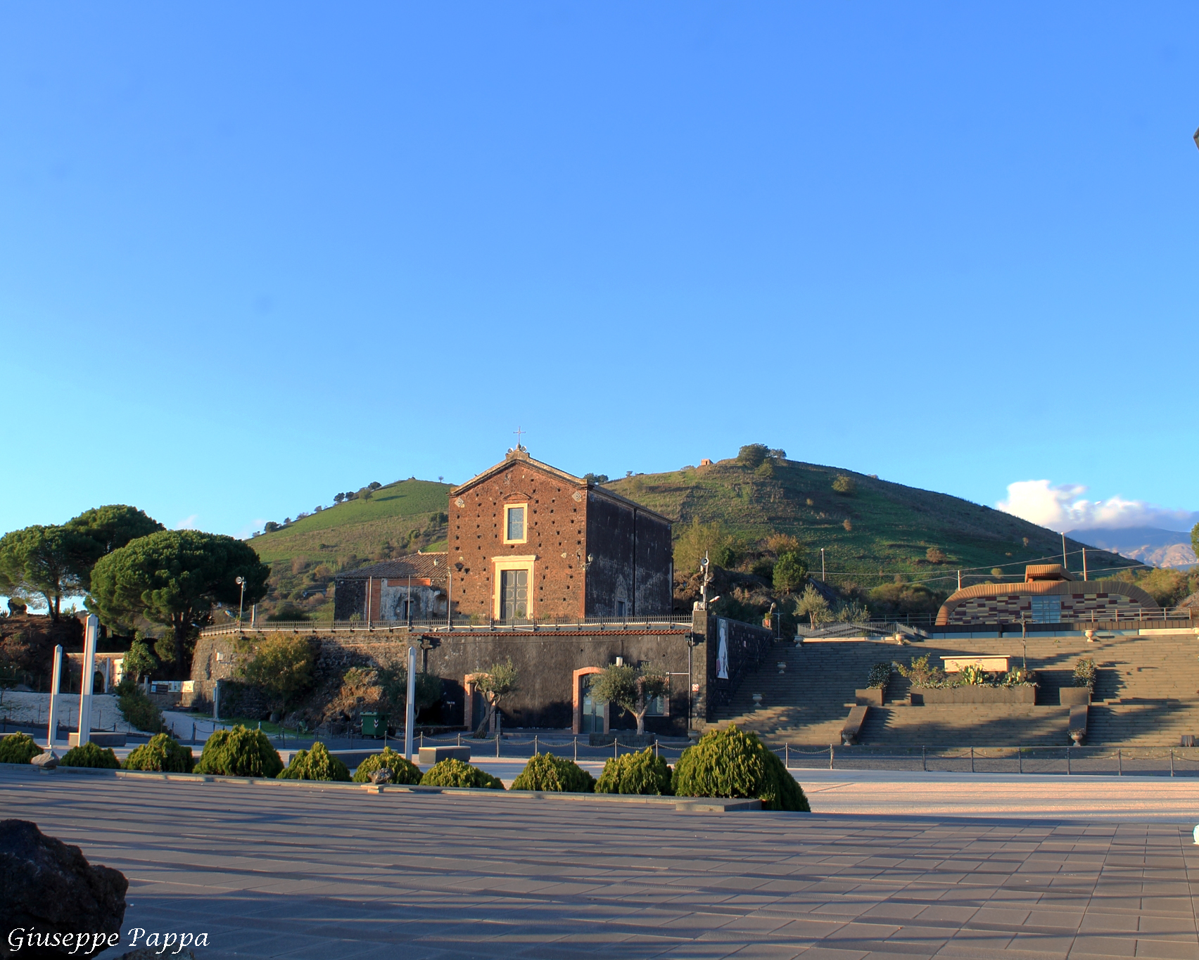 Mompilieri church